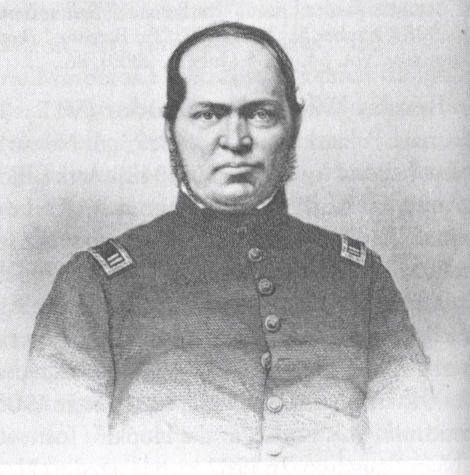 image of Alexander Bielaski, Civil War colonel